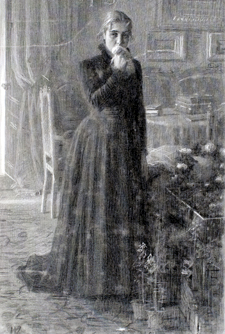 Inconsolable grief (pencil study by Ivan Kramskoi, 1884 or earlier)